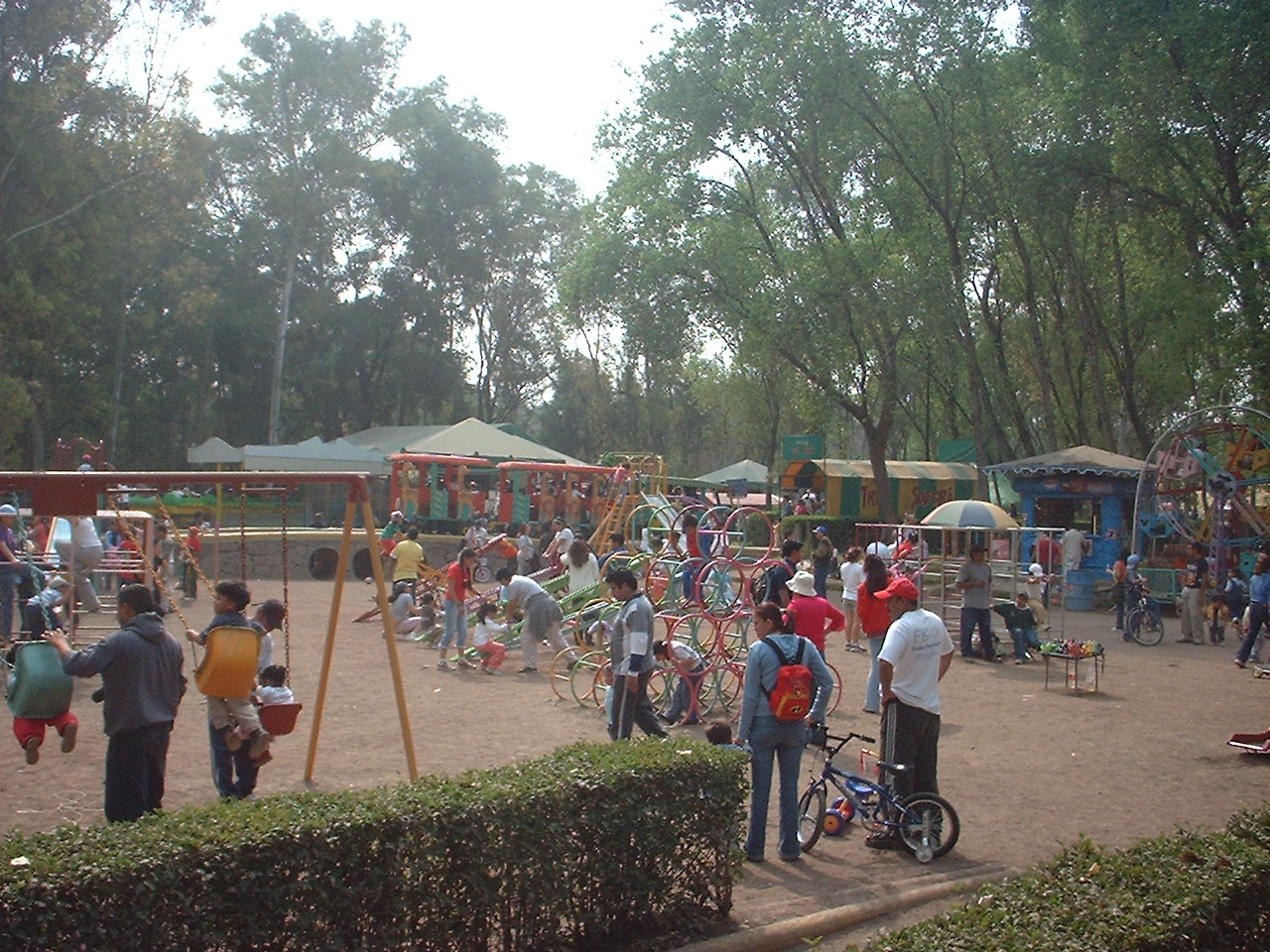 Playground in Parque Tezozómoc — in the Azcapotzalco district, Mexico City (México, D. F.).